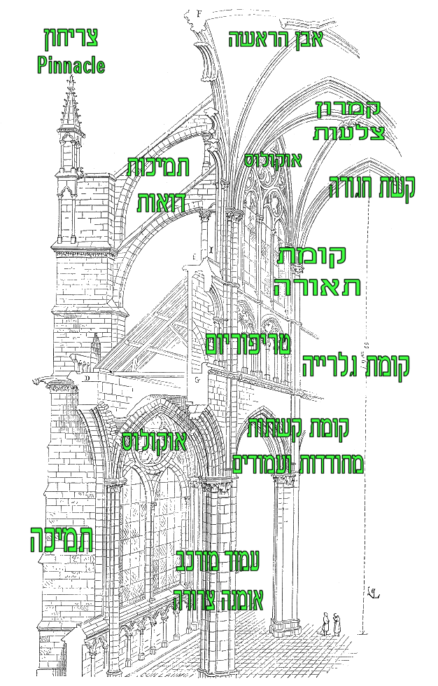 Parts of the Gothic wall structure Based on Image:Coupe.nef.cathedrale.Amiens.png חלקי הקיר הגותי Author: MathKnight